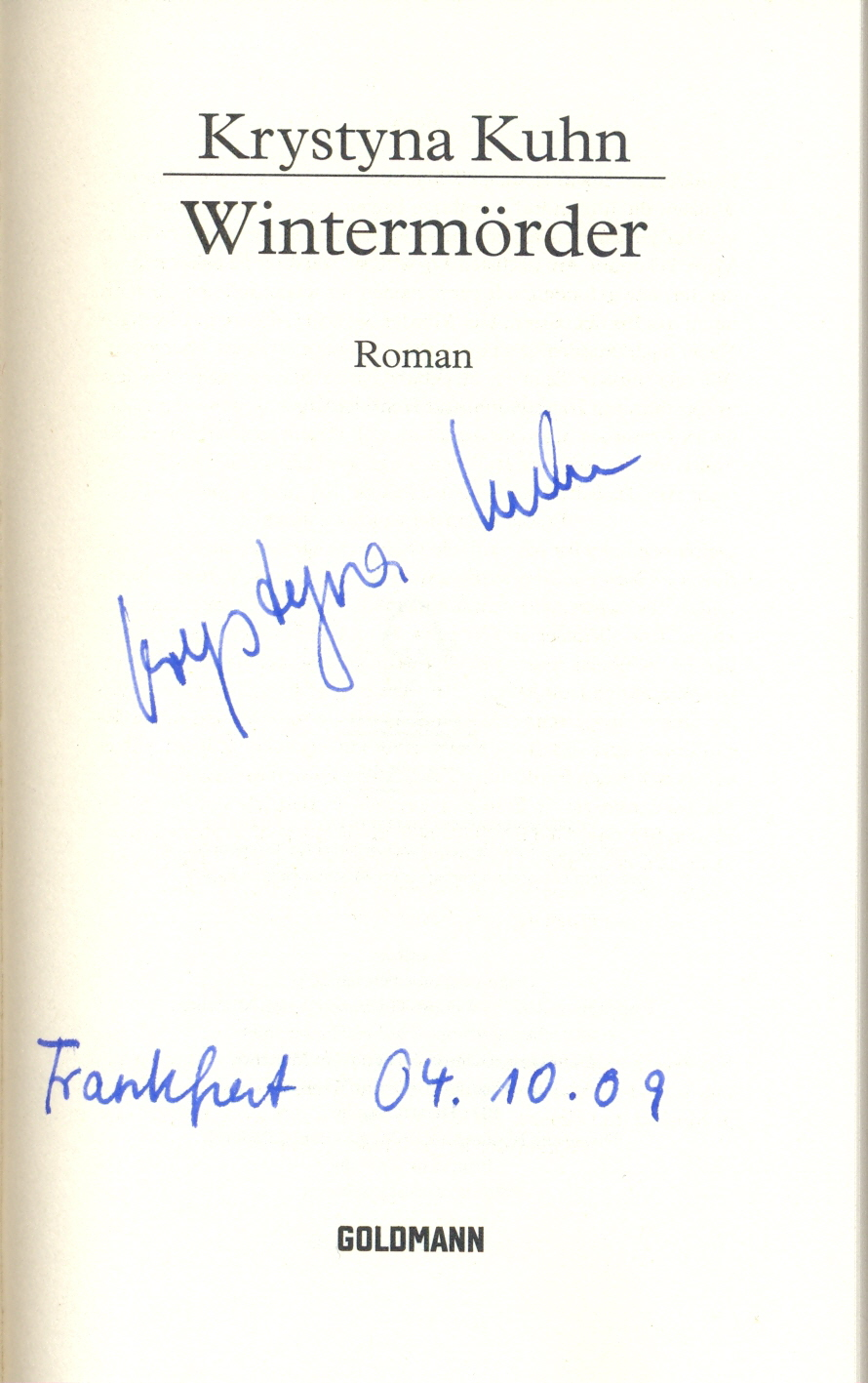 Autograph from Krystyna Kuhn, German writer